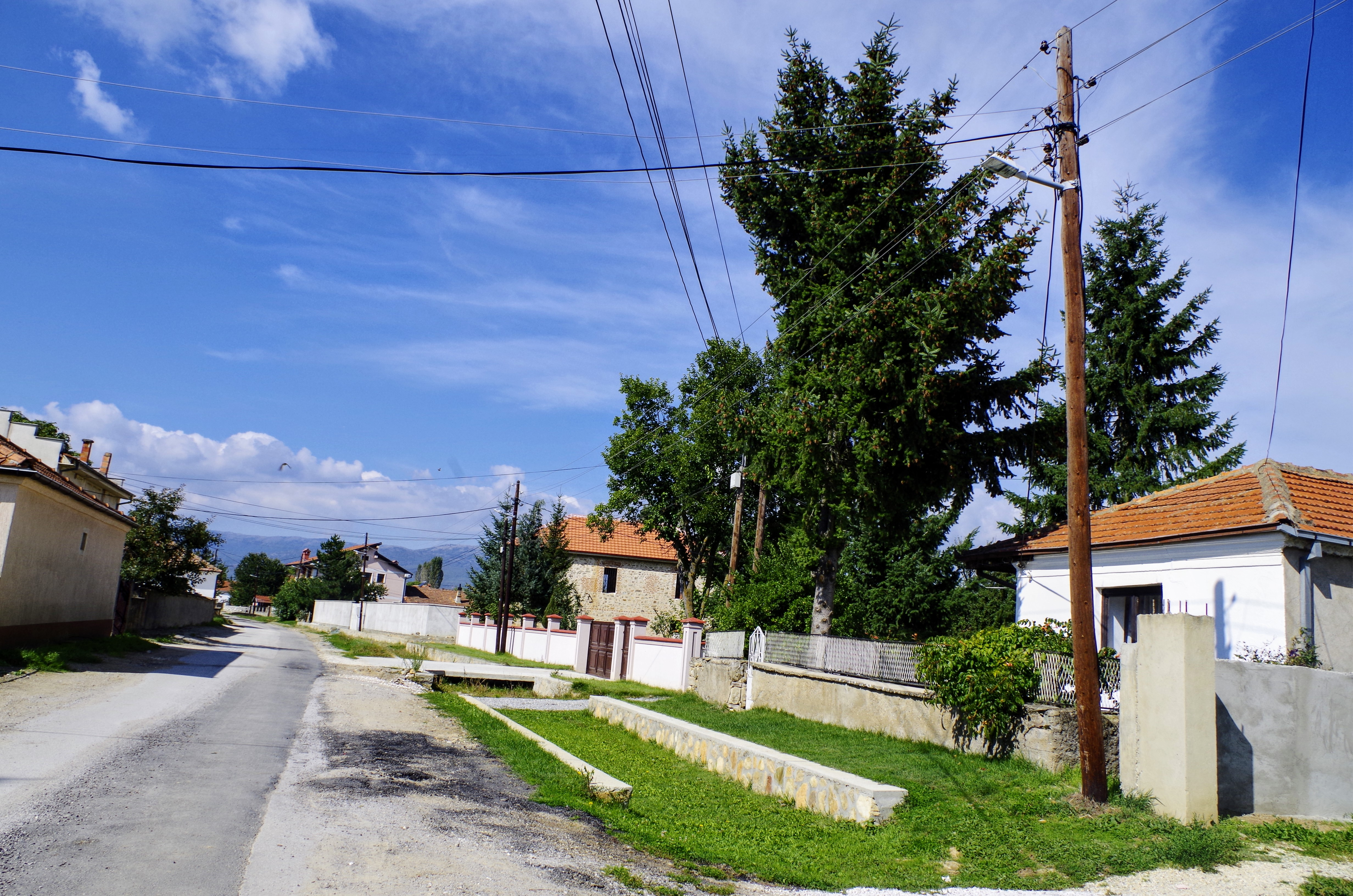 View of the village Dolna Bela Crkva